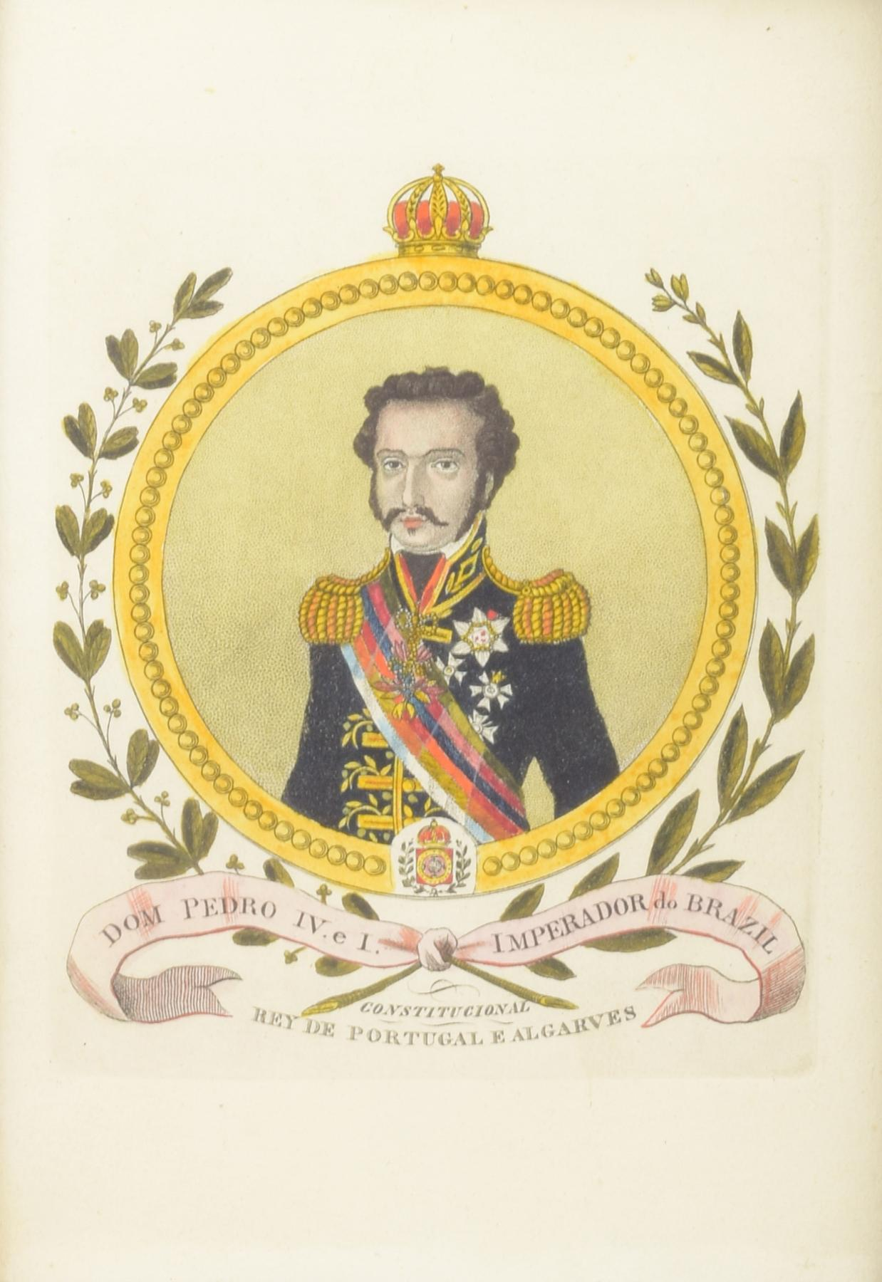 Peter IV of Portugal and I of Brazil.